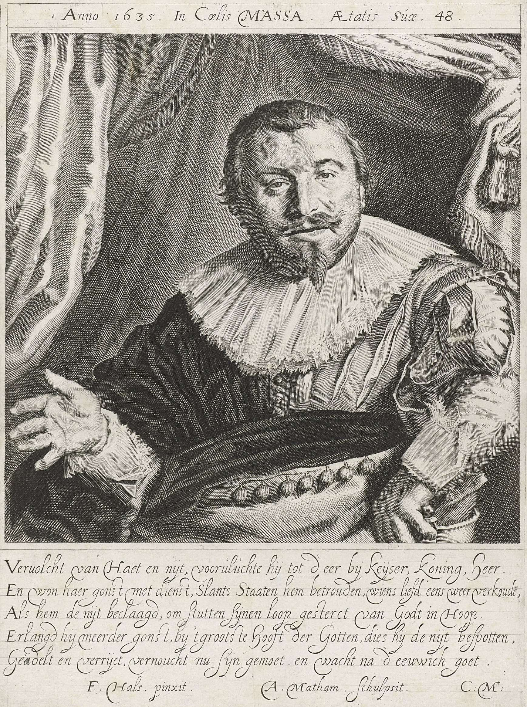 Portrait of Isaac Abrahamsz. Massa